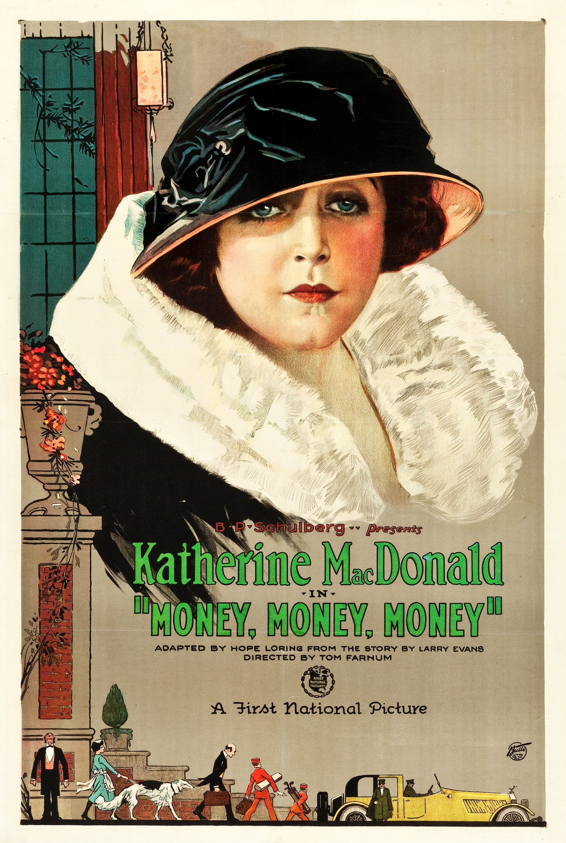 This is a poster for the 1923 American silent drama film Money, Money, Money.